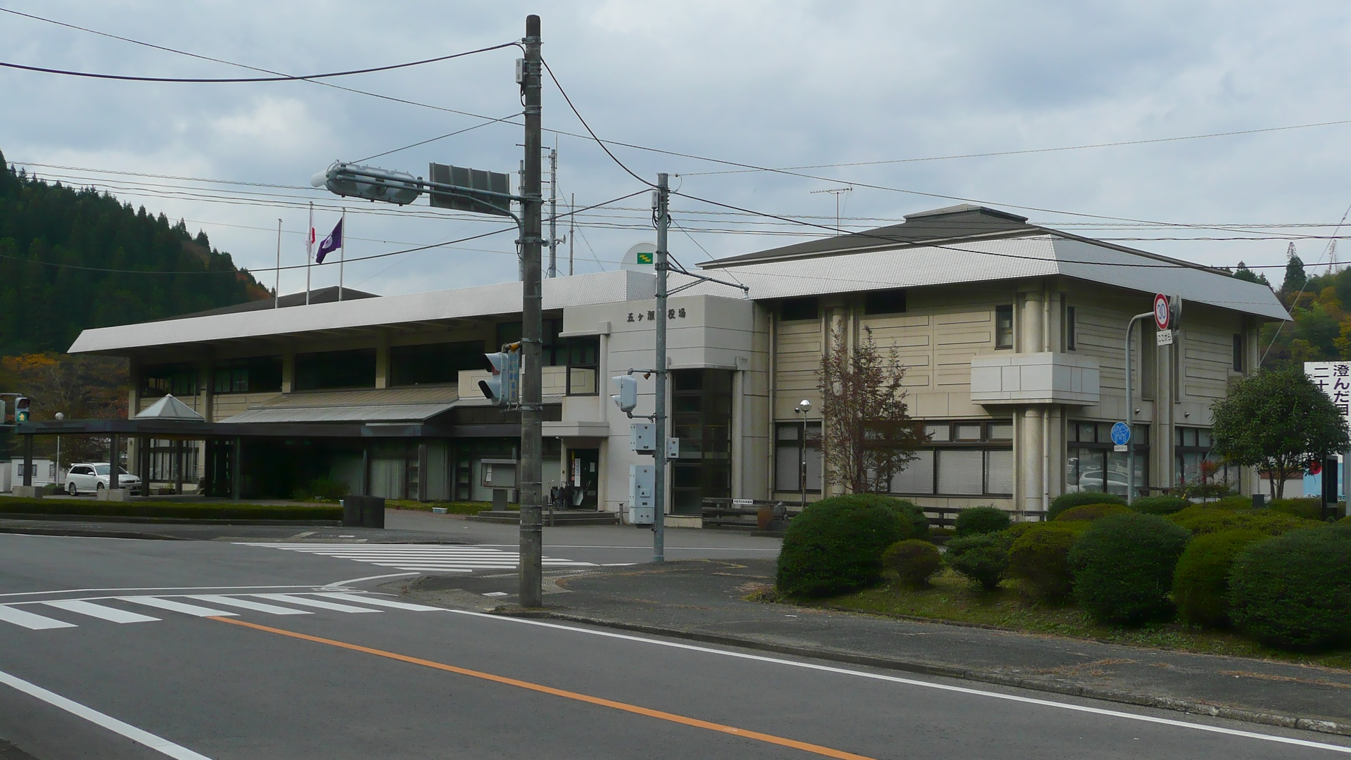 Gokase Town Office (November 2009 - Miyazaki Prefecture, Japan)